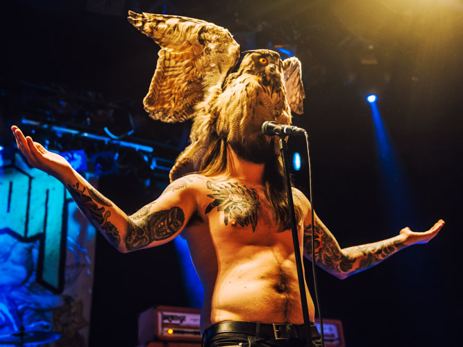 Erlend Hjelvik of Kvelertak, live at USF Verftet. Bergen 2013.